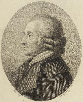 Naphtali Herz Wessely, from the Jewish Encyclopedia